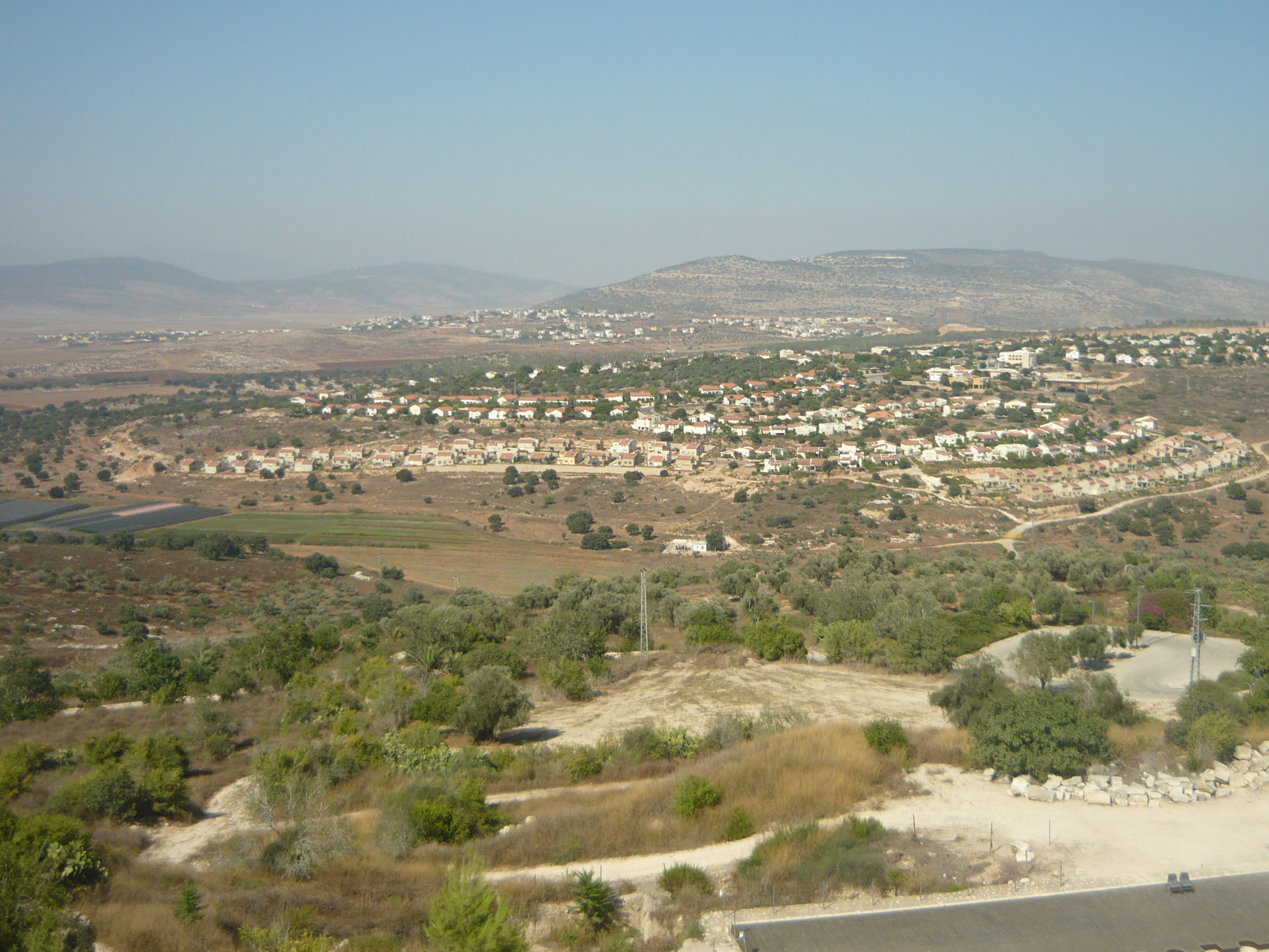 hoshaya, Galillee, Israel הושעיה, מבט כללי מכיוון עתיקות ציפורי